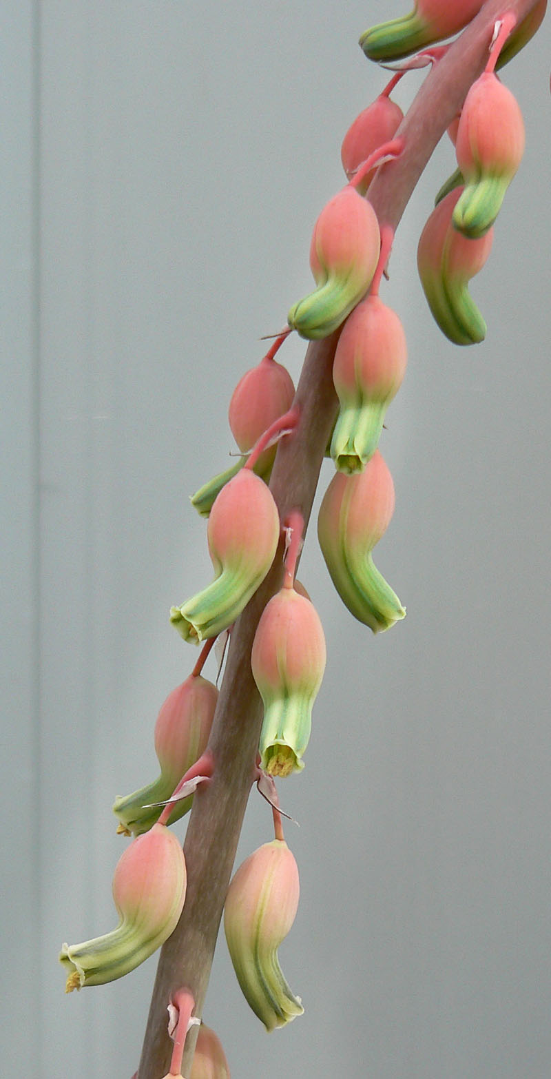 Gasteria disticha at the University of California Botanical Garden, Berkeley, California